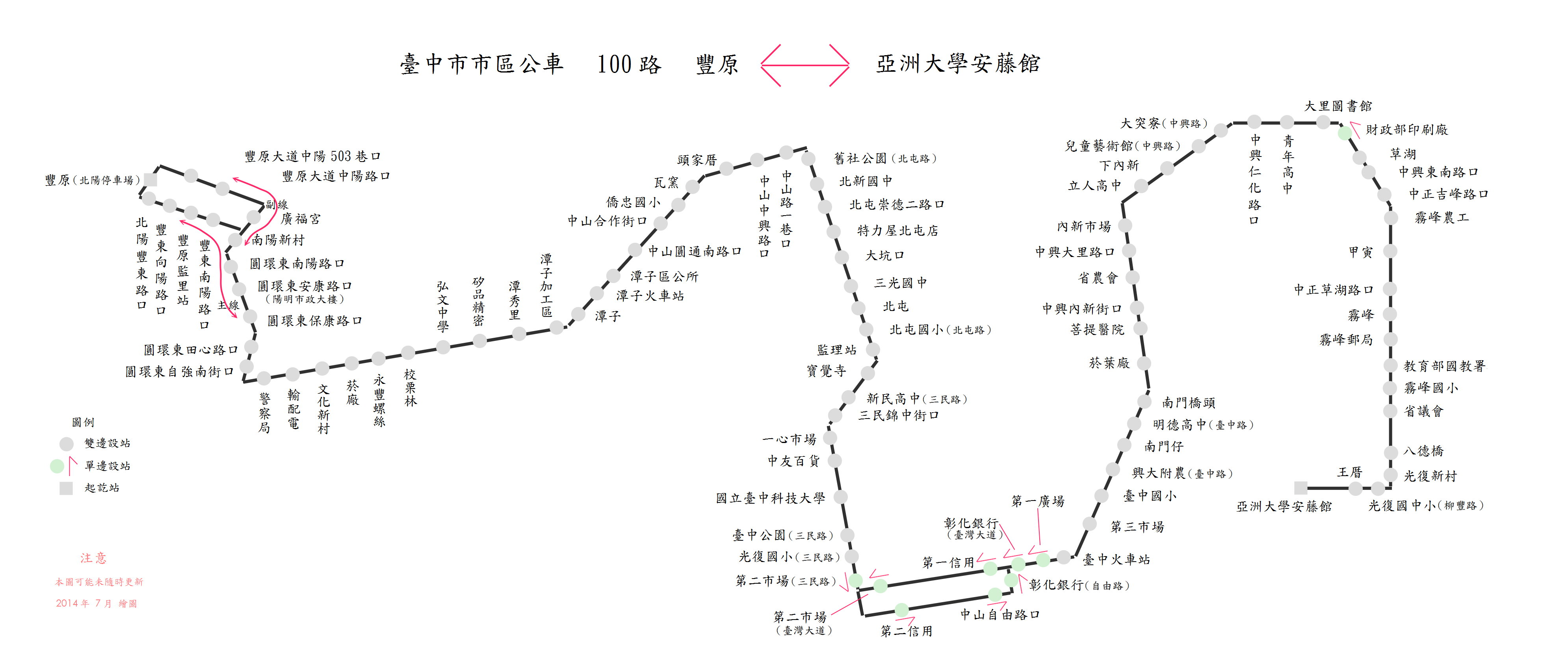 Plan of Taichung City Bus Route 100(Include Sub. Line)